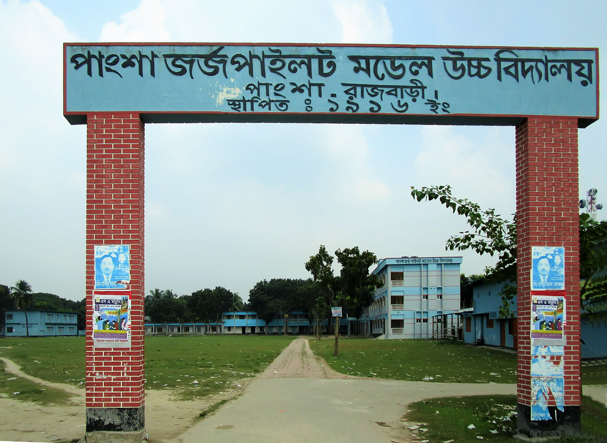 The Nameplate of Pangsha George Pilot Model High school.